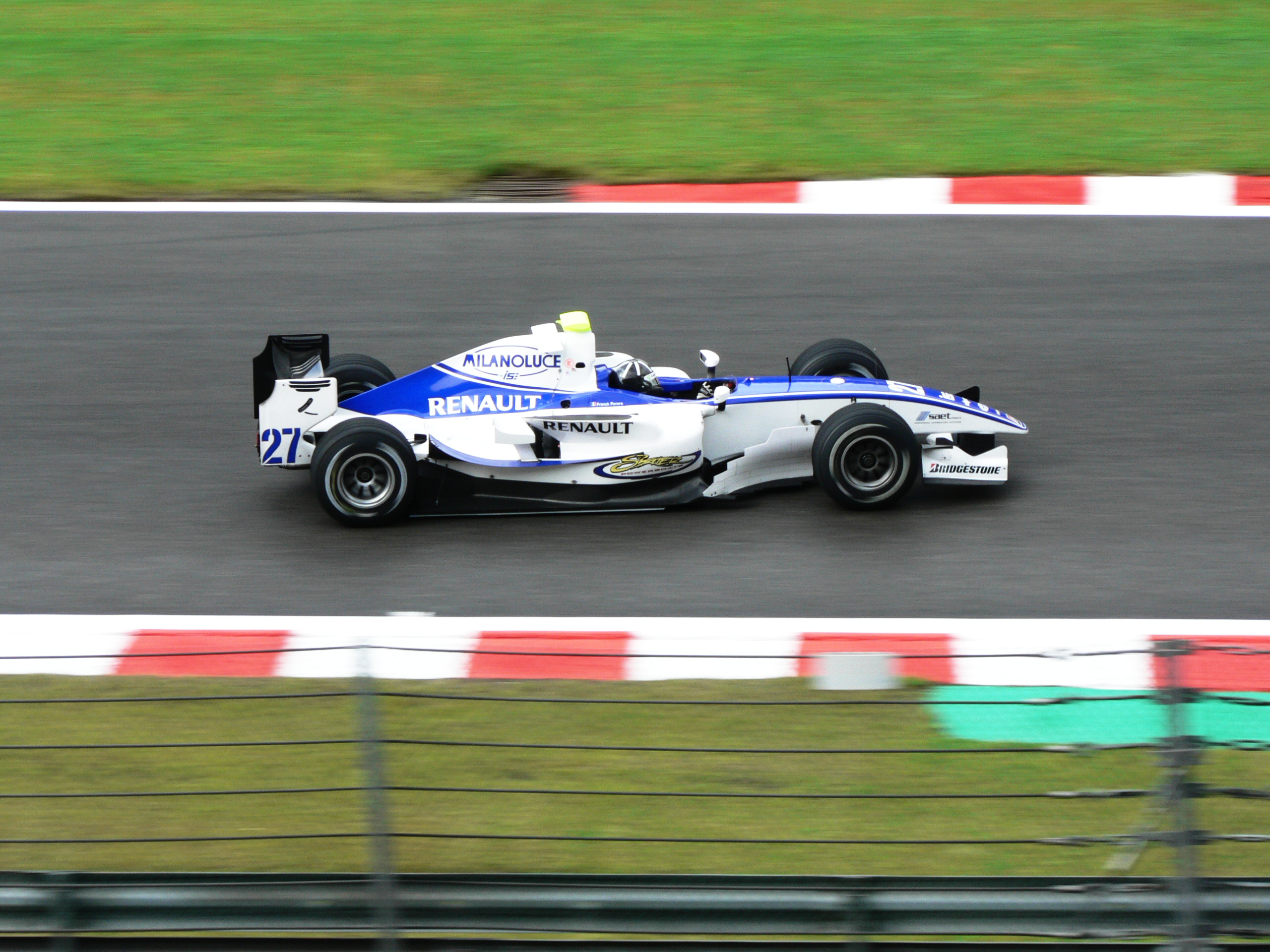 Franck Perera drving for David Price Racing at the Spa-Francorchamps round of the 2009 GP2 Series season.